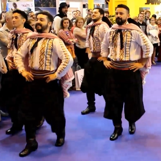 Danza Chiricote is a paraguayan typical dance